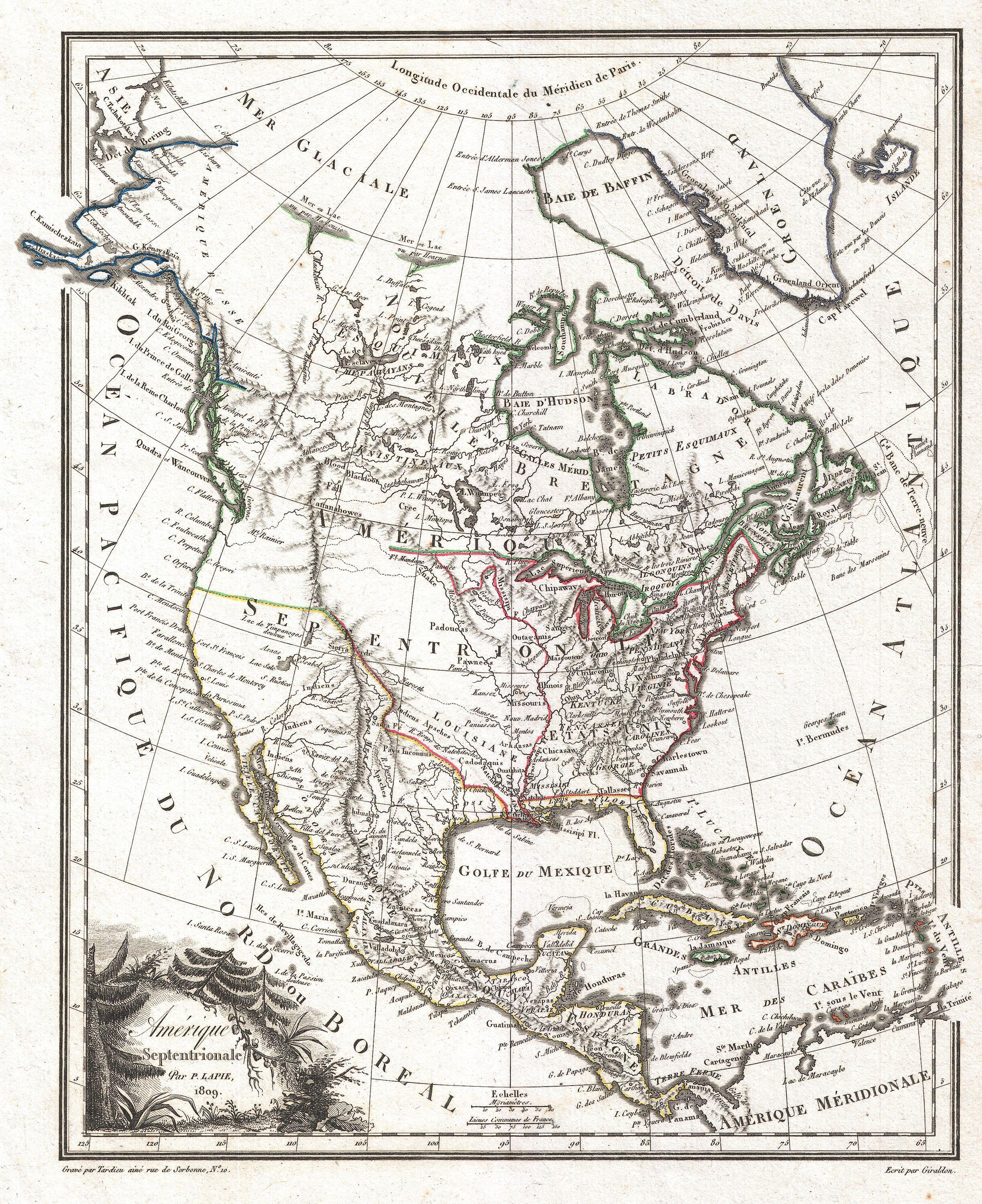 A highly uncommon and desirable 1810 map of North America by the French cartographer Ambrose Tardieu. Depicts all of North America including Canada, Mexico the United States at a formative but ephemeral period shortly following the U.S. acquisition of Louisiana but prior to both the acquisition of Florida, Texas and Upper California, and the 54°40' Oregon boundary dispute. Mexico controls much of what is today the Southwestern United States and California. As this map was being produced several major events were in process that would eventually redefine the cartography of the region, but Tardieu had access to little of this information. Instead he relies on old Spanish records, speculations, and the data collected by the Dominguez-Escalante expedition of 1776 and 1777 and Zebulon Pike's expedition of 1806. Both Lake Timpanagos (Great Salt Lake) and Lake Teguyo (Utah Lake) are appear - though both are speculative and malformed at this point. Also shows are speculative courses of the Colorado River in the Rocky Mountains. Louisiana is joined to the united states by the map's color coding, but demarcated along the Mississippi River as a distinctly separate zone. The northwestern boundaries of Louisiana in what is today British Columbia, Oregon and Washington, remain indistinct. Tardieu recognizes Russian Claims to Alaska as well as French and British Claims to Canada and certain properties in the West Indies. In the far north hopeful traces of the Northwest Passage remain, with the seas identified by Mackenzie and Hearne - likely the Dolphin and Union Strait - duly noted. Greenland is also, curiously , attached to the mainland. A decorative title cartouche in the lower left hand quadrant details some of the flora and fauna of the continent.